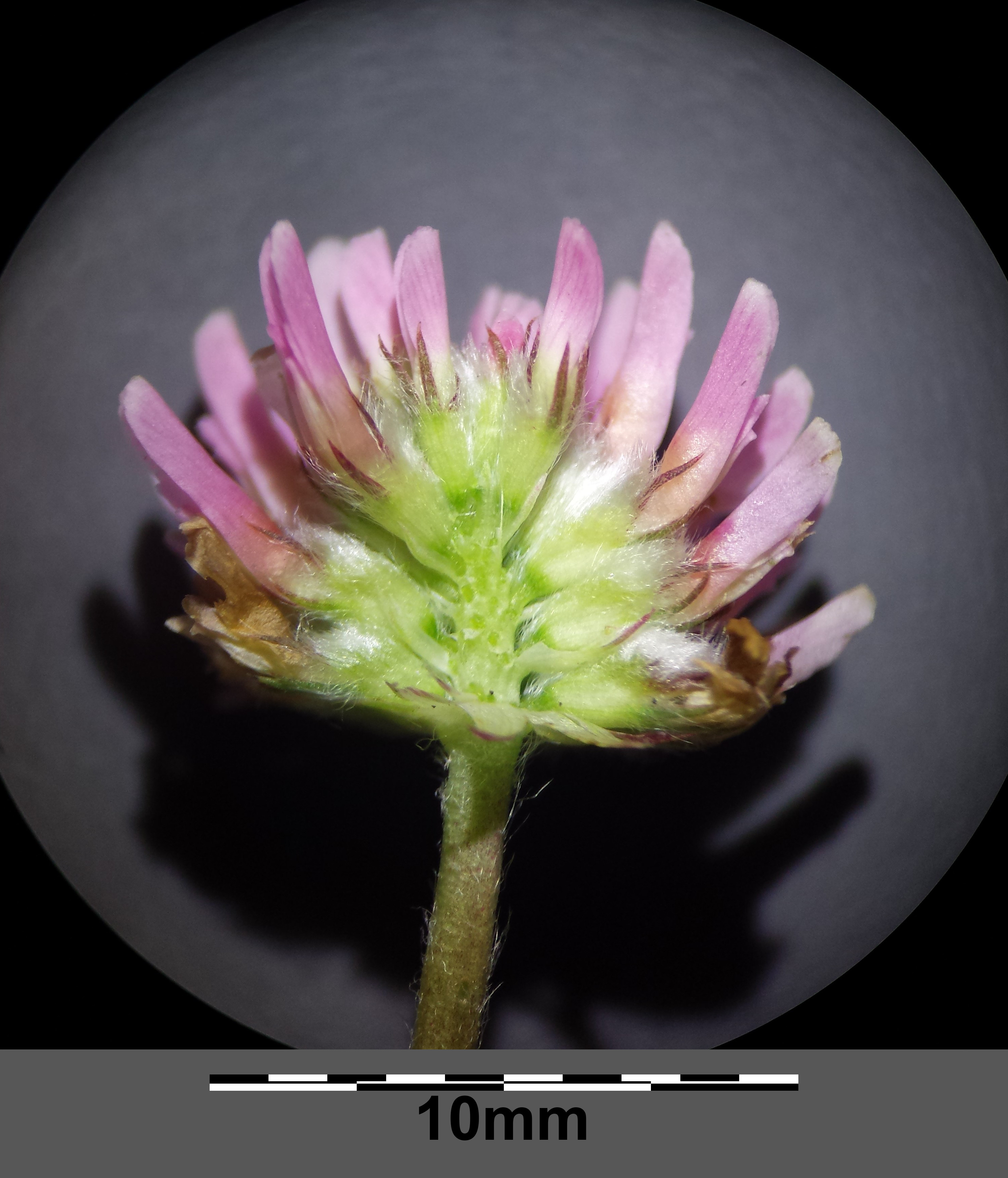 Flower head - front flowers removed Taxonym: Trifolium fragiferum (subsp. fragiferum) s. str. ss Fischer et al. EfÖLS 2008 ISBN 978-3-85474-187-9 Location: Donaupark, Vienna-Donaustadt - ca. 160 m a.s.l. Habitat: turf